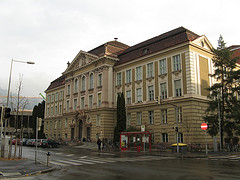 Front Section Of Leoben University